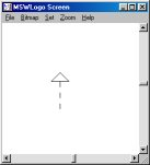 A screen dump of a Logo Example Ex3 Dotted line, from a program written by author on MSW dialect of LOGO } MSWLogo is issued under GNU Public License